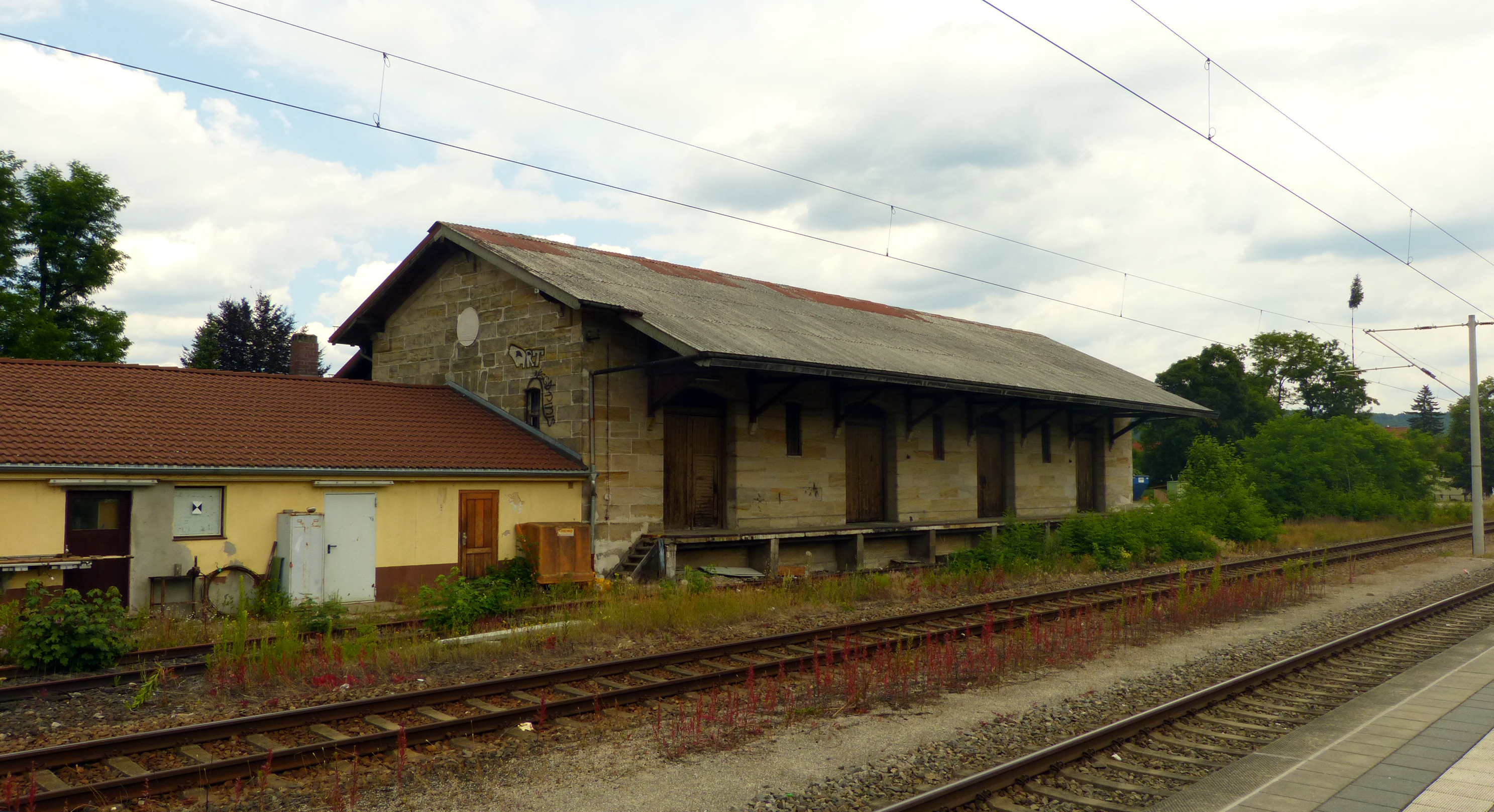 Former goods shed of the german railway station Hersbruck (links Pegnitz)